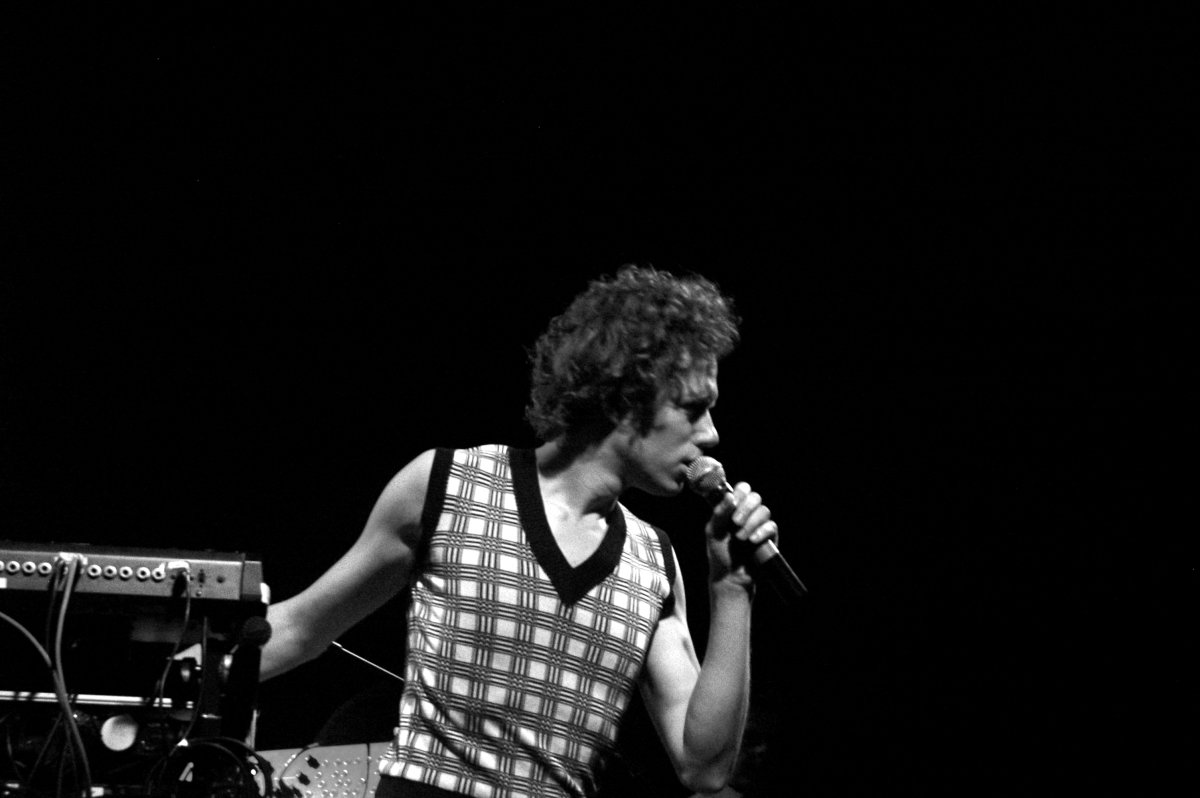 Belgian musician Stijn at the Viva Velinx festival